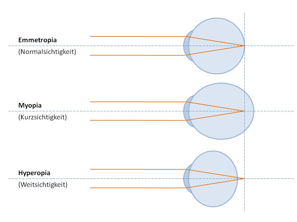 Schematics of refractive errors of the eye, Emmetropia, Myopia (nearsightedness), Hyperopia (farsightedness)